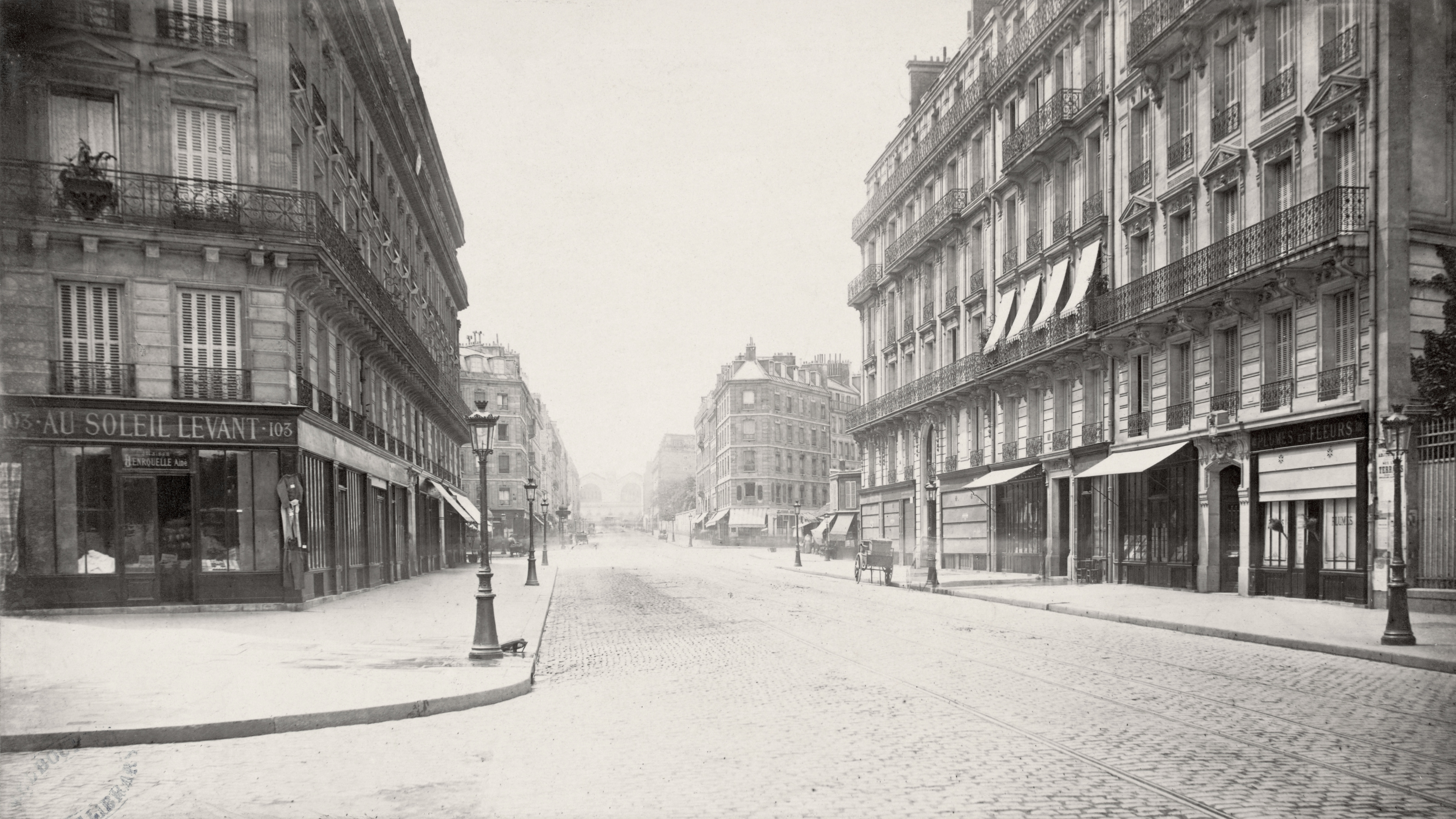 Looking along wide cobbled street with tram lines running the length of the street, three storey buildings with wrought iron balconettes, building on left corner: Au Soleil Levant.